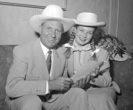 Gene Autry and Gail Davis in Toronto, Ontario, Canada